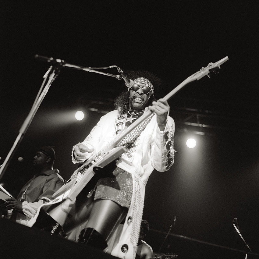 E-Werk, Cologne/Germany 1998